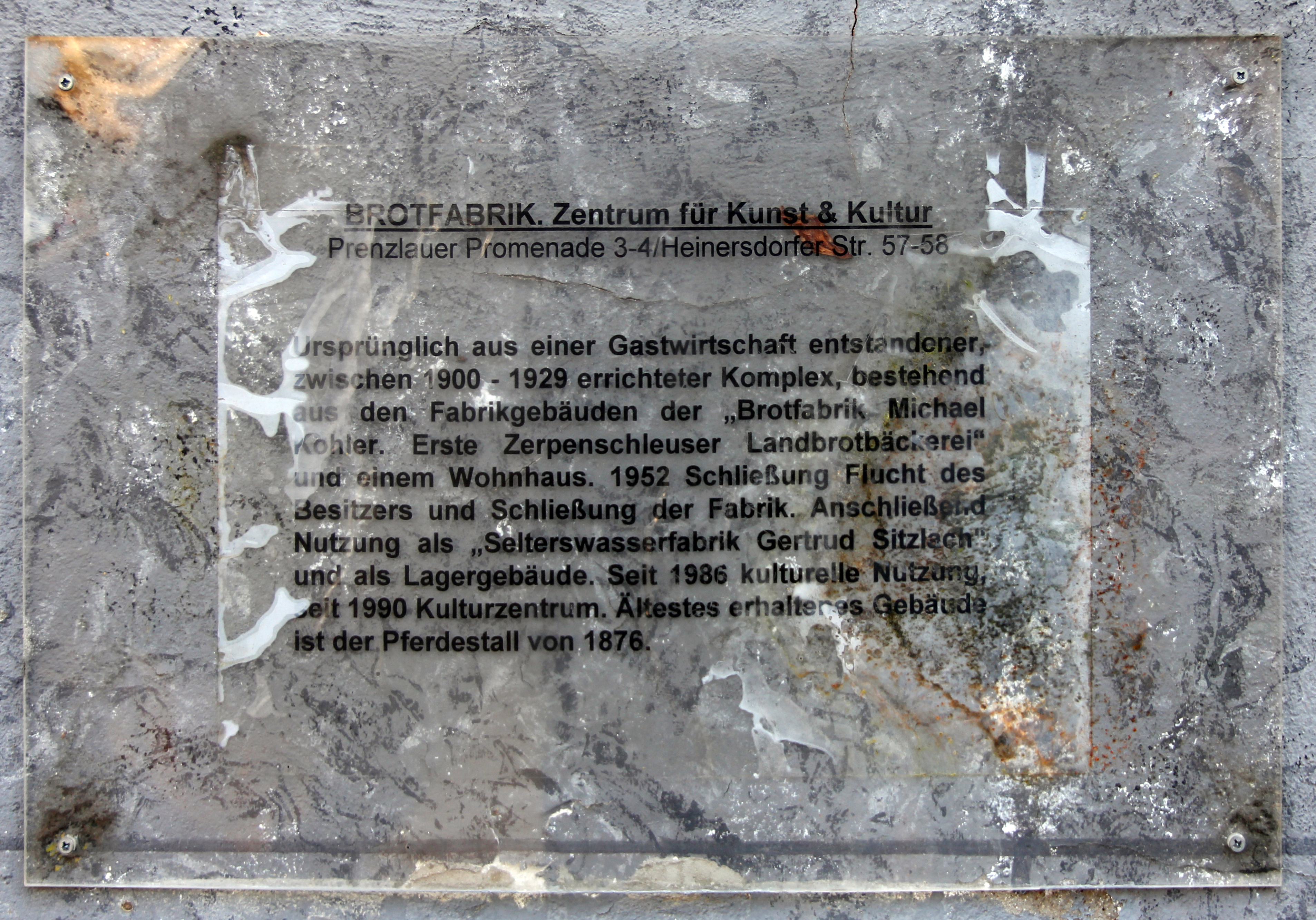 Memorial plaque, Brotfabrik, Caligariplatz, Berlin-Weißensee, Germany